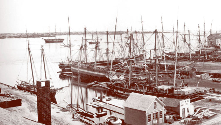 New Bedford waterfront 1867. Stephen F. Adams. Courtesy of the New Bedford Whaling Museum New Bedford, Massachusetts - old harbor Obtained from